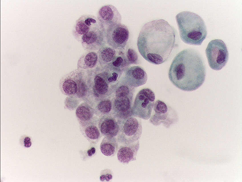 Urine cytology, papanicolau stain, 400x. A group of slightly atypical utothelial cells.